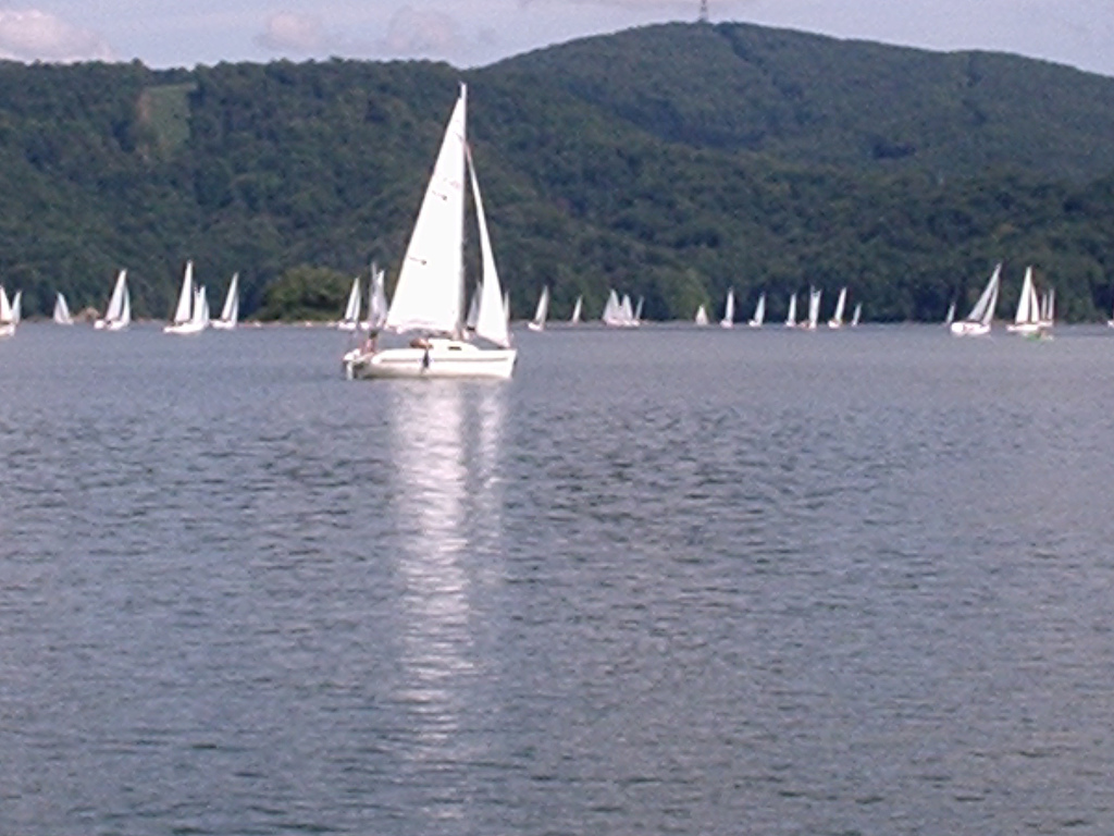 a view from the race boat at the start of Stomil Zjawa Club's annual Solina regatta in may 2005, Poland, Bieszczady.